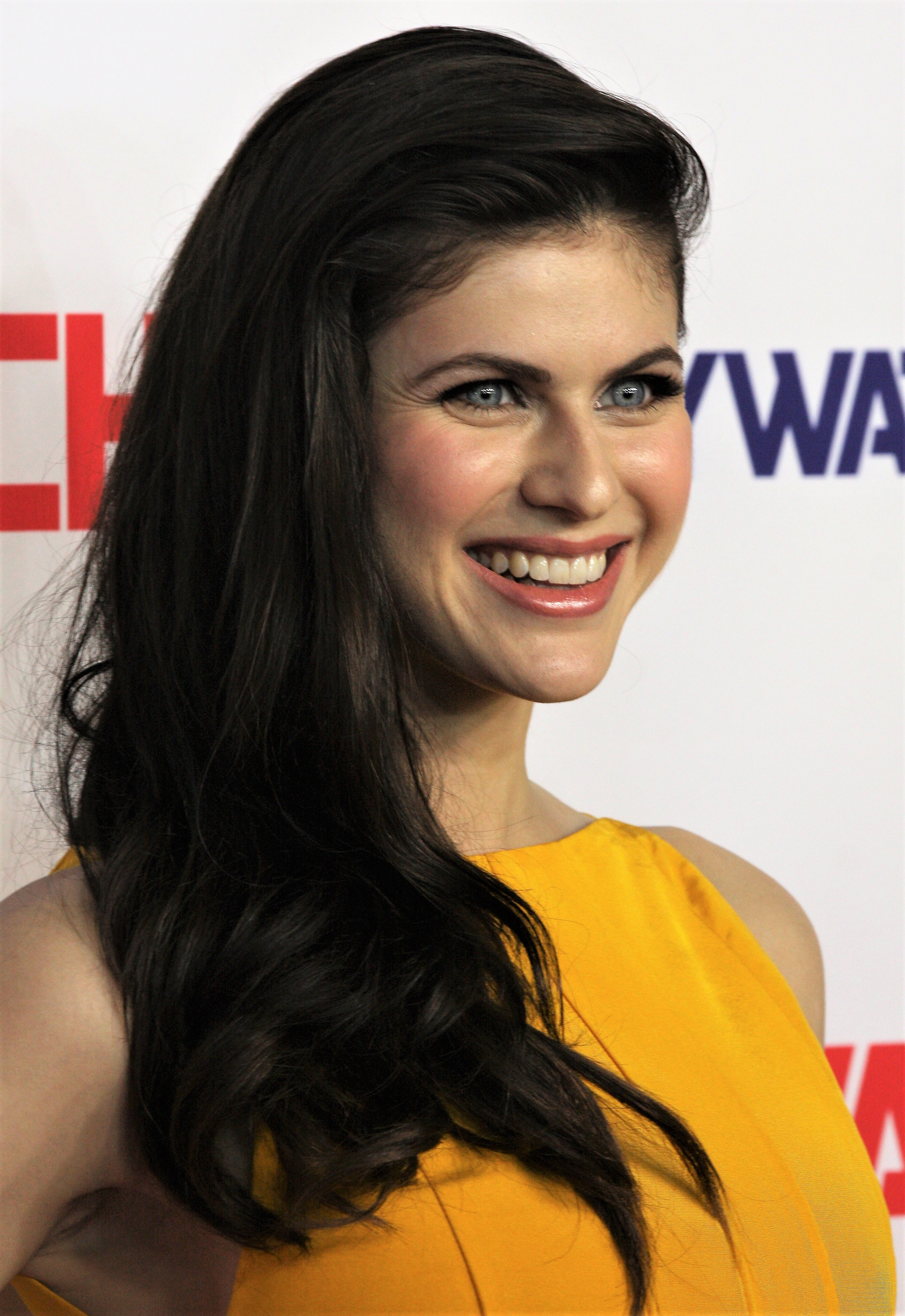 Alexandra Daddario Eva Rinaldi Photography (1)